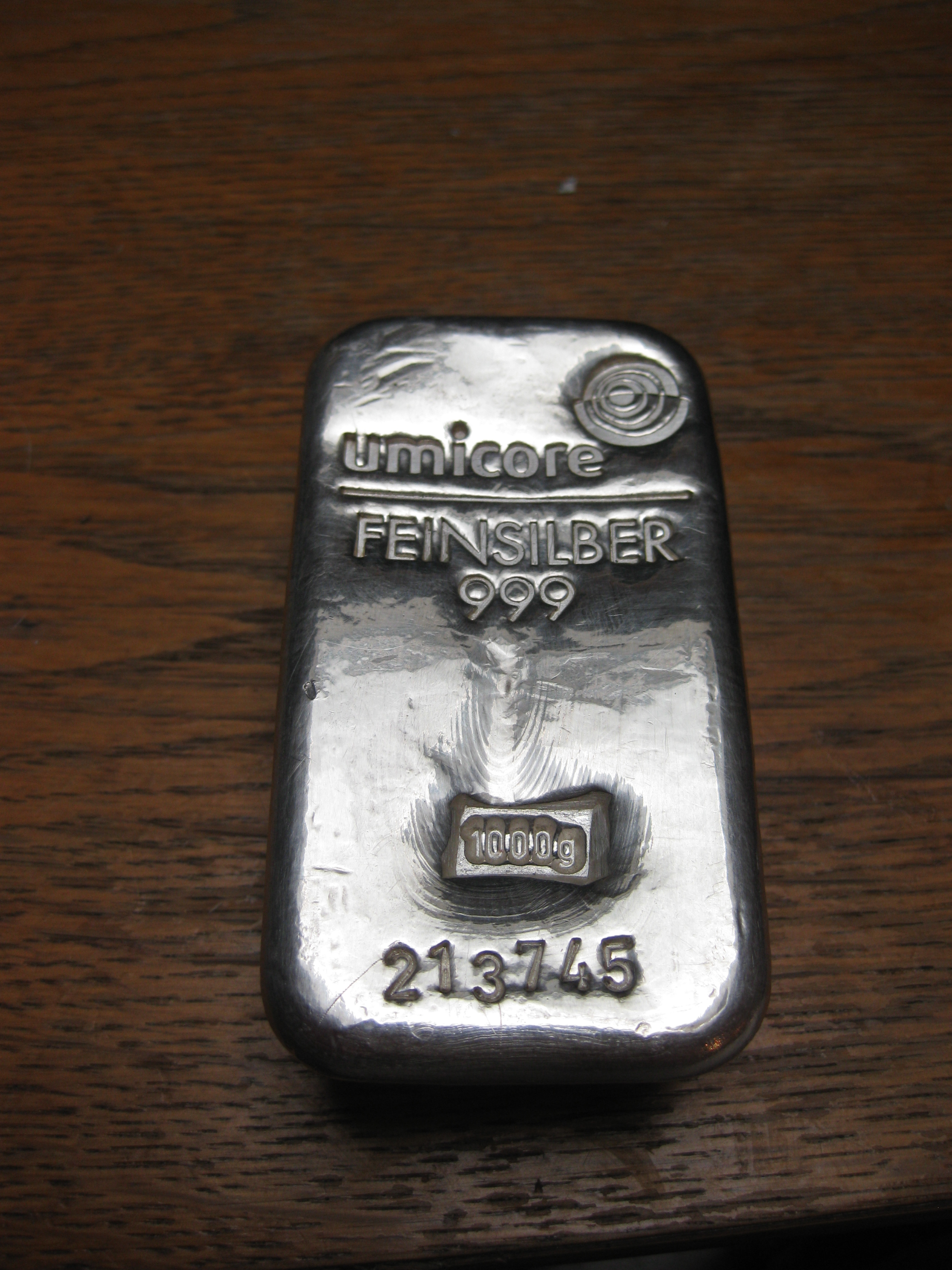 Silver ingot 1 kg